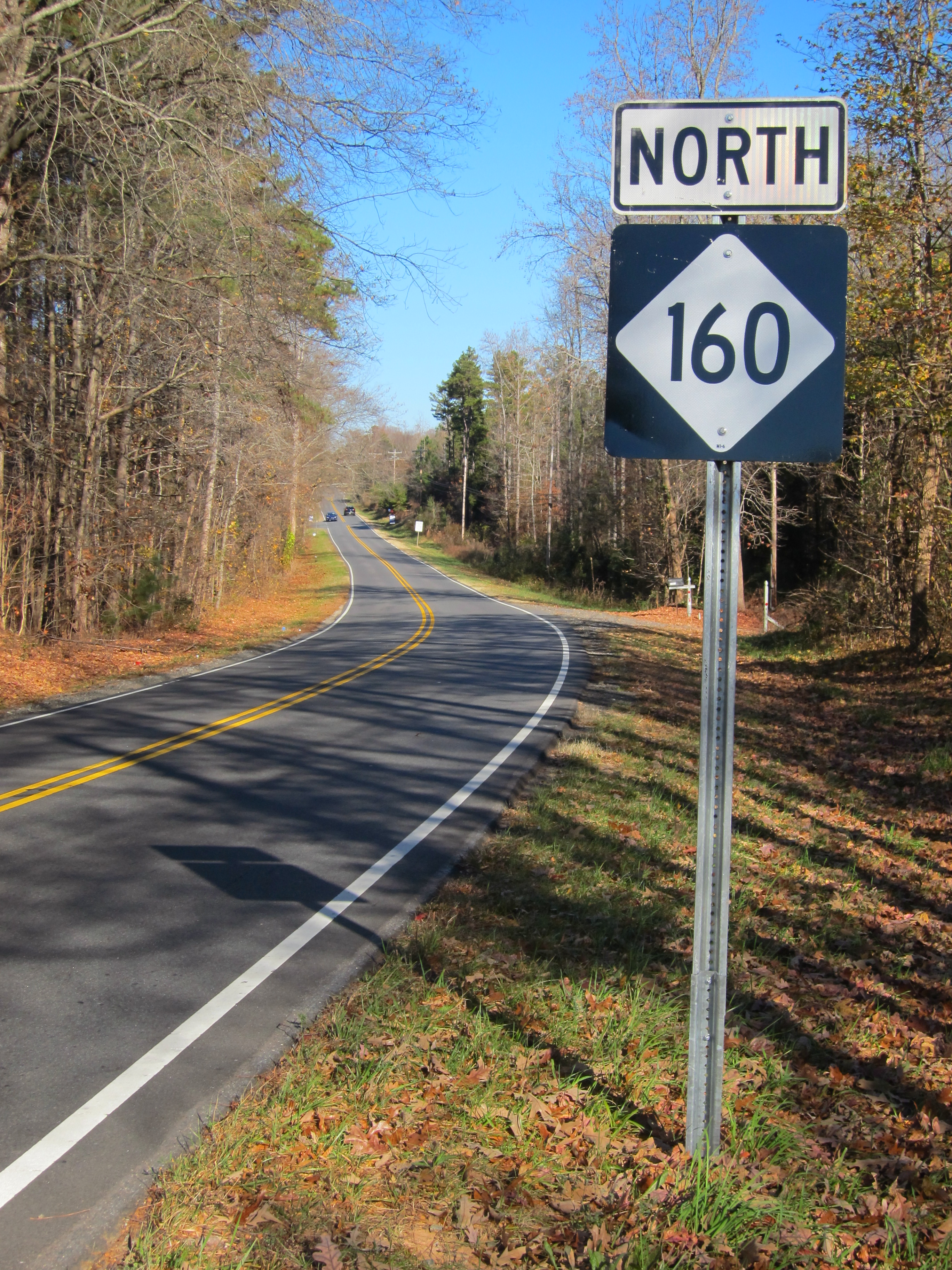 First sign of NC 160 North towards Steele Creek, from the NC/SC state line.